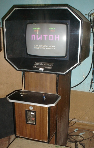 Photo of Arcade cabinet "Foton"